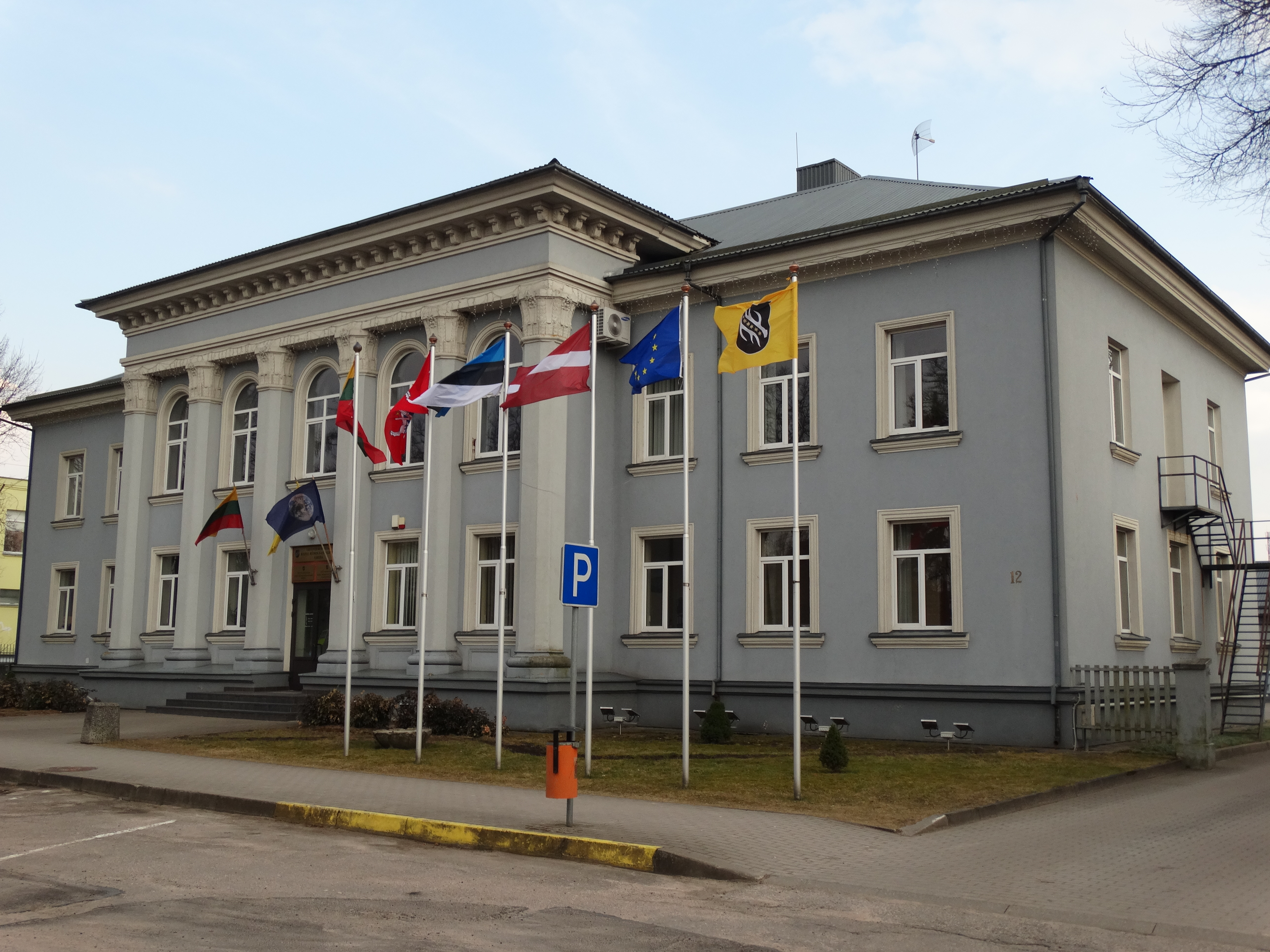 Centre of culture, Kazlų Rūda, Lithuania